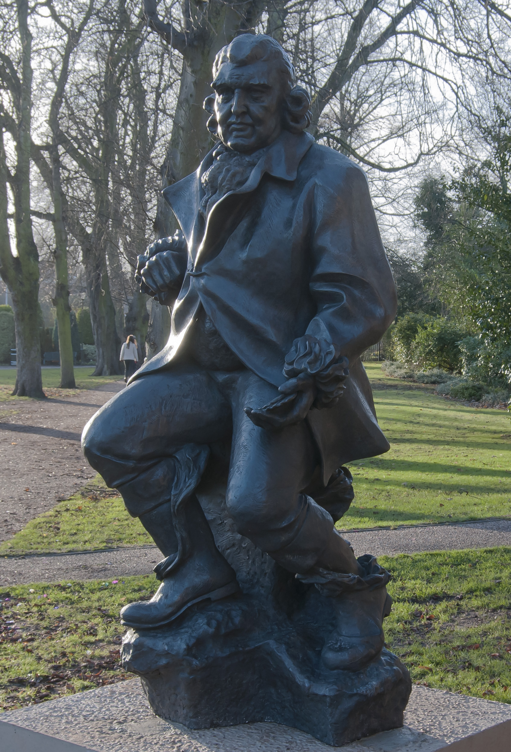 The Erasmus Darwin statue in Beacon Park, Lichfield, UK